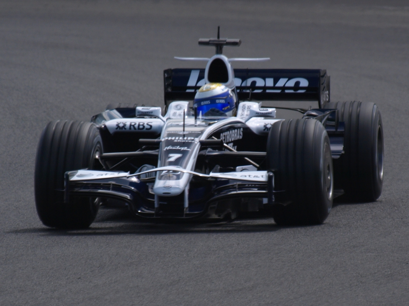 Nico Rosberg testing for WilliamsF1 at Silverstone Circuit in June 2008.